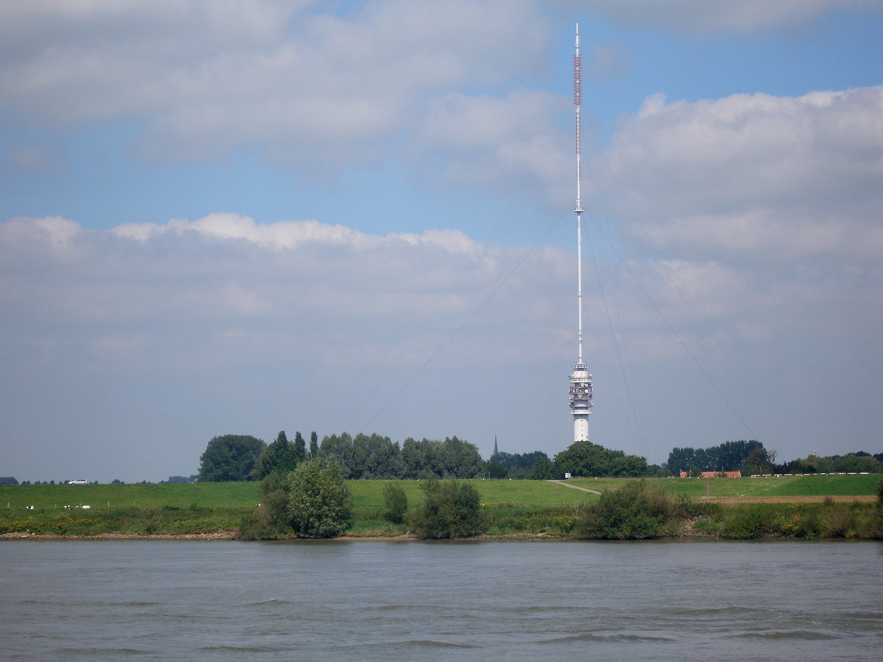 Radio and TV tower Gerbrandy Tower (Gerbrandytoren), as viewed from the other side of the Lek River. On the left-hand side the Sint-Nicolaas basilica in IJsselstein can be seen.